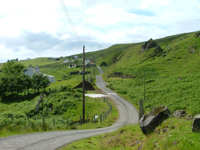 The crofting township of Peighinn Choinnich in Glen Conon, near Balnaknock, Highland, Scotland.